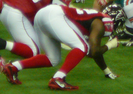 If used somewhere other than Wikipedia, Nelson, by name.